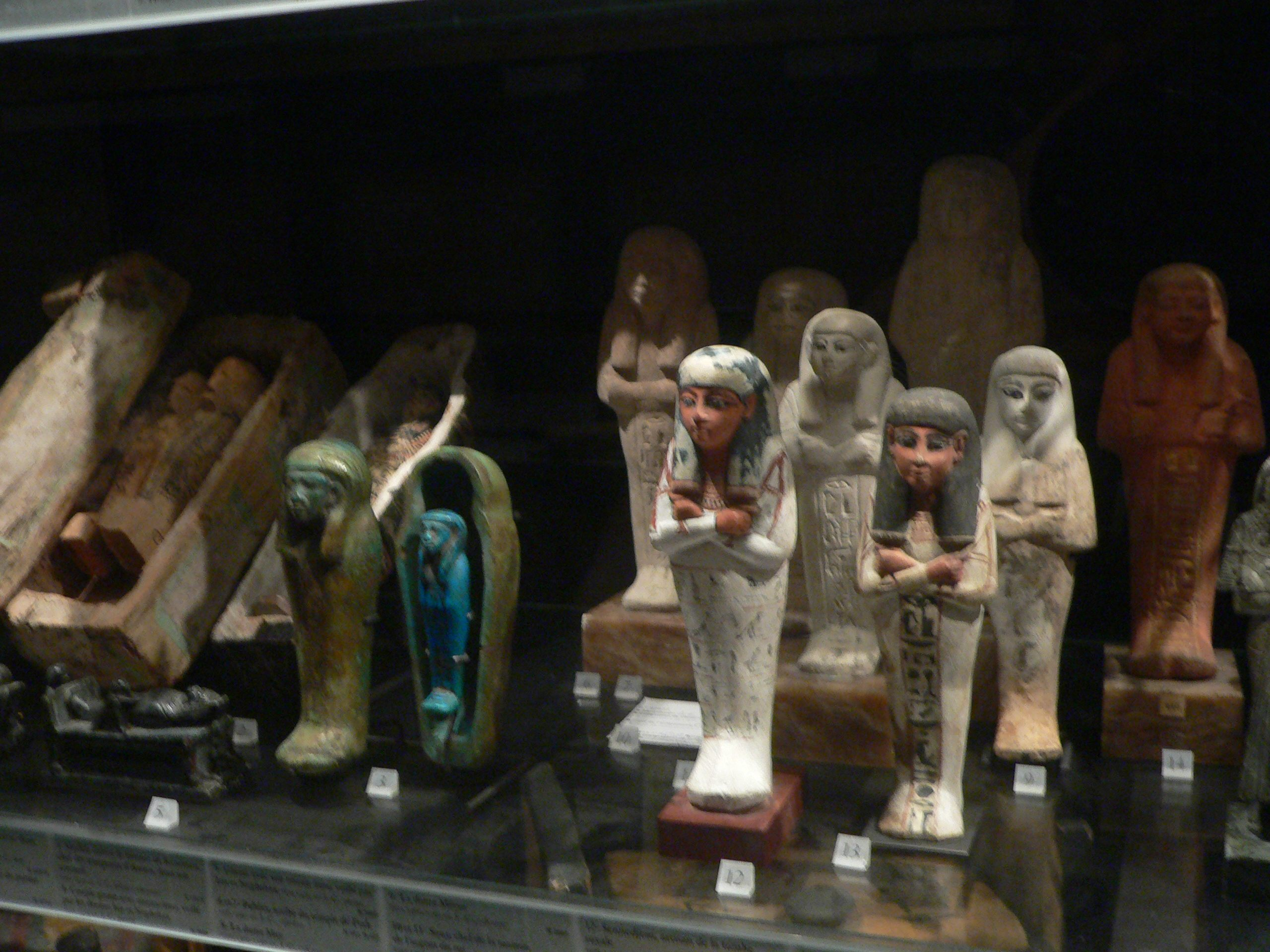 Egyptian antiquities of the Louvre (the category is temporary and serves for work upon the whole set of images)